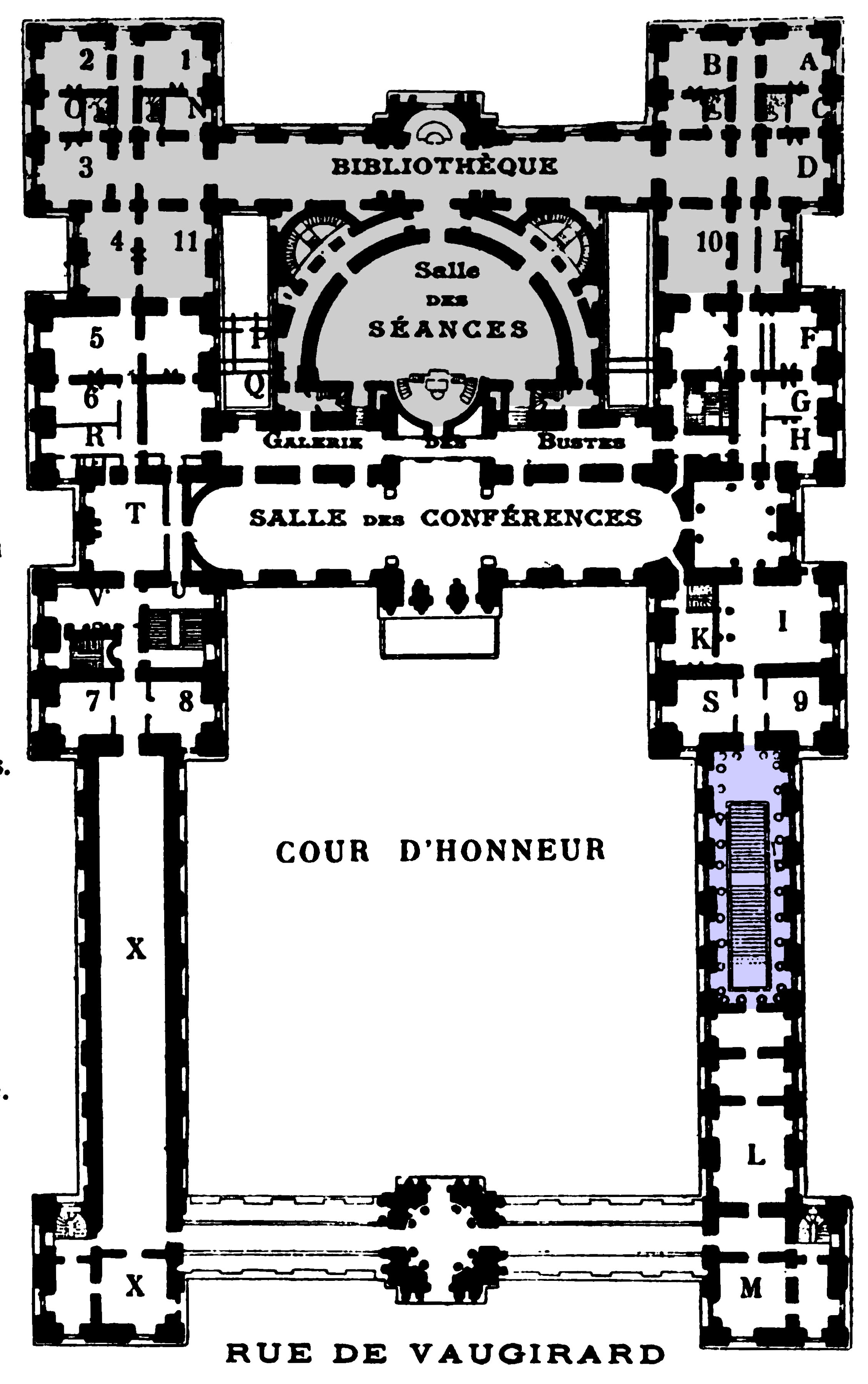 Plan of the Palais du Luxembourg in Paris, as it appeared after modifications in 1799–1805 by Jean Chalgrin, who created the grand staircase (blue), and in 1836 by Alphonse de Gisors, who created the permanent chamber of the Senate of France in the courtyard between the old corps de logis and and the new garden wing (gray)